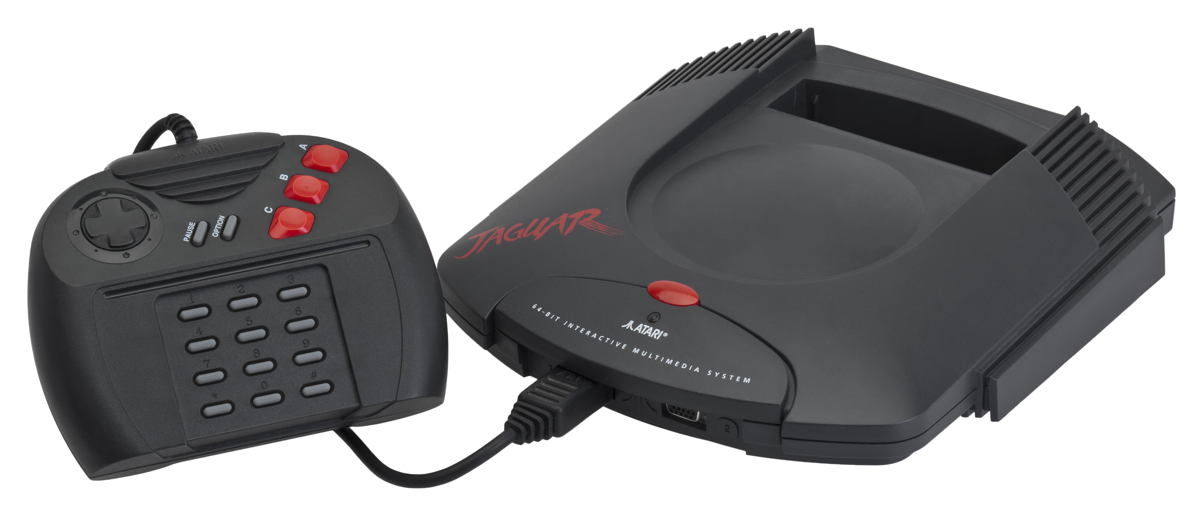 The Atari Jaguar console shown with the standard controller. The Jaguar was a fifth generation gaming console released by Atari Corp. in 1993. Using a 3 chip, 5 processor design, it had a powerful (for its time) architecture, but games generally didn't fully utilize it due to the difficult nature of programming for it. It had a small game library with titles mostly published by Atari, a company that was had constant difficulties getting back in the dedicated gaming market after the Atari 2600. It was Atari's Corps last gaming console, as it took itself out of the gaming market after the huge failure of the console.